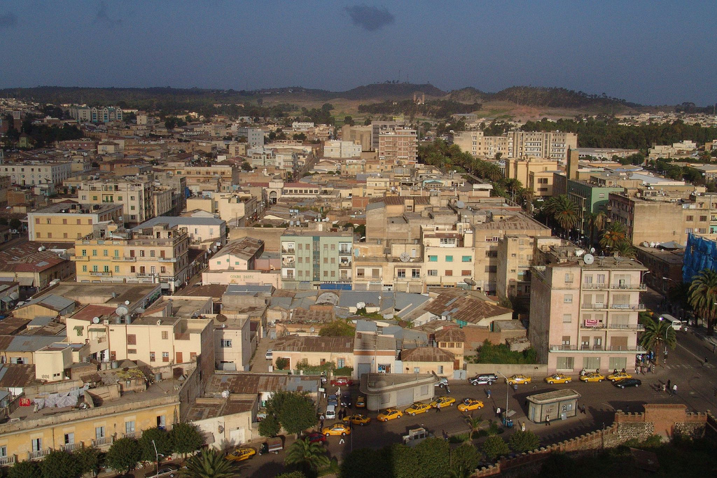 Asmara, Eritrea.Asmara - view from top of cathedral